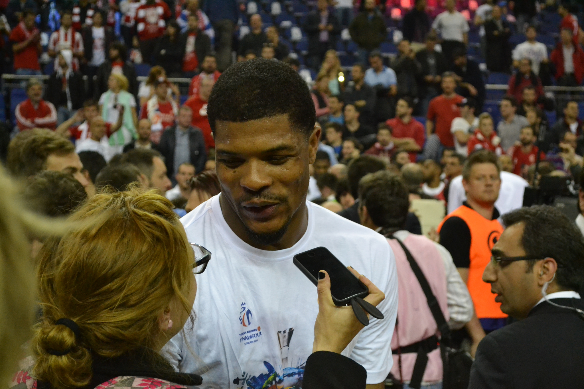 Kyle Hines at Euroleague Final - Olympiacos VS Real Madrid. O2 Arena, London, May 12th 2013